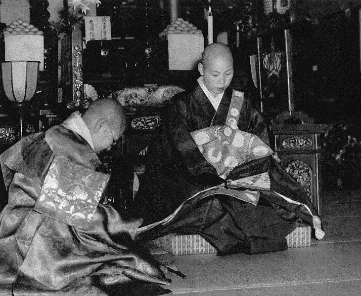 Buddhist Ordination Ceremony of Seigyoku Takatsukasa